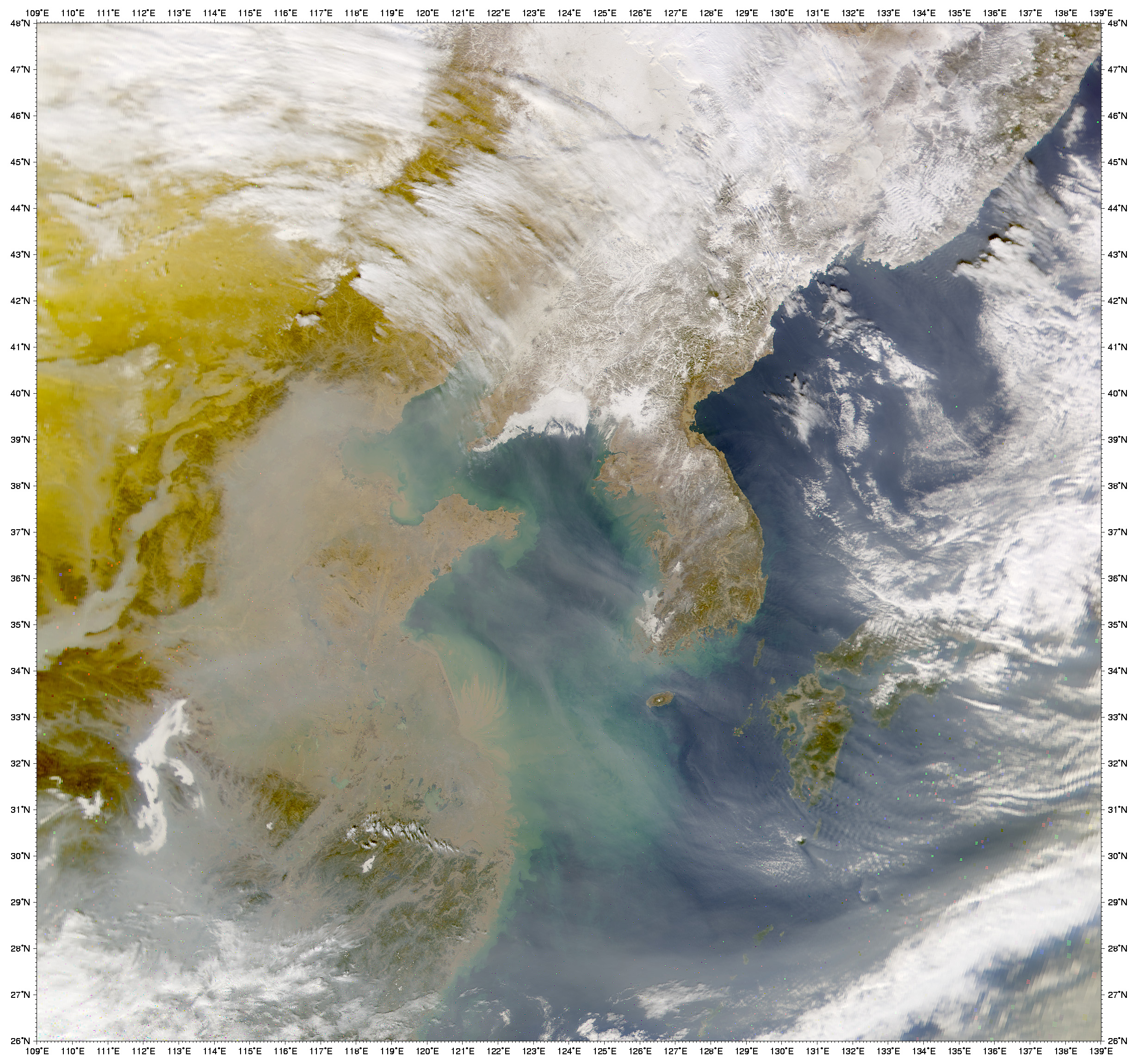 A thick shroud of haze lingers over China, turning the sky an opaque grey over most of the eastern provinces and almost completely blotting out details of the land surface in this true-color scene. Beijing, China’s capital city, is situated roughly 150 km (93 miles) west of Bo Hai Bay, under what appears to the densest portion of the aerosol pollution. These data were collected on January 11, 2002, by the Sea-viewing Wide Field-of-view Sensor (SeaWiFS), flying aboard OrbView 2. The heavy aerosol concentrations can be seen blowing eastward across the Bo Hai Bay and Yellow Sea. It appears that some of the pollution has reached as far east as North and South Korea and the islands of Japan.